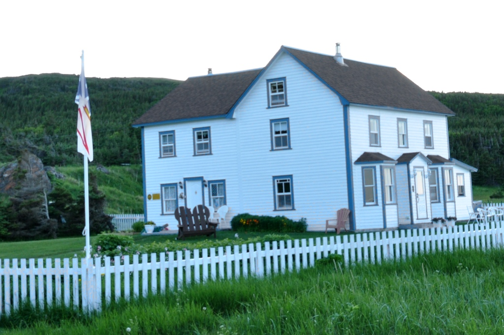 Adams Home, Cape Onion, Newfoundland; now a bed and breakfast.